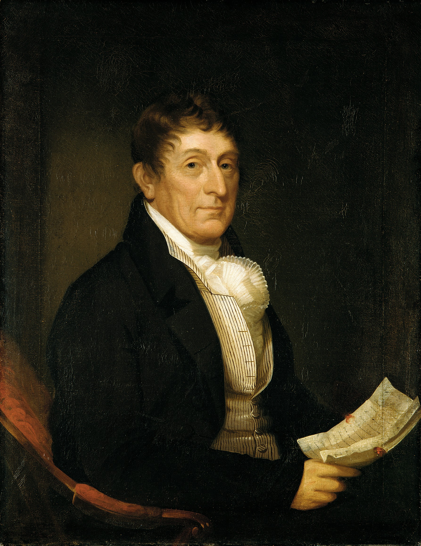 Philip Van Cortlandt Artist: Ezra Ames (American, Framingham, Massachusetts 1768–1836 Albany, New York) Date: ca. 1810 Medium: Oil on canvas Dimensions: 36 x 28 in. (91.4 x 71.1 cm) Classification: Paintings Credit Line: Gift of Christian A. Zabriskie, 1940